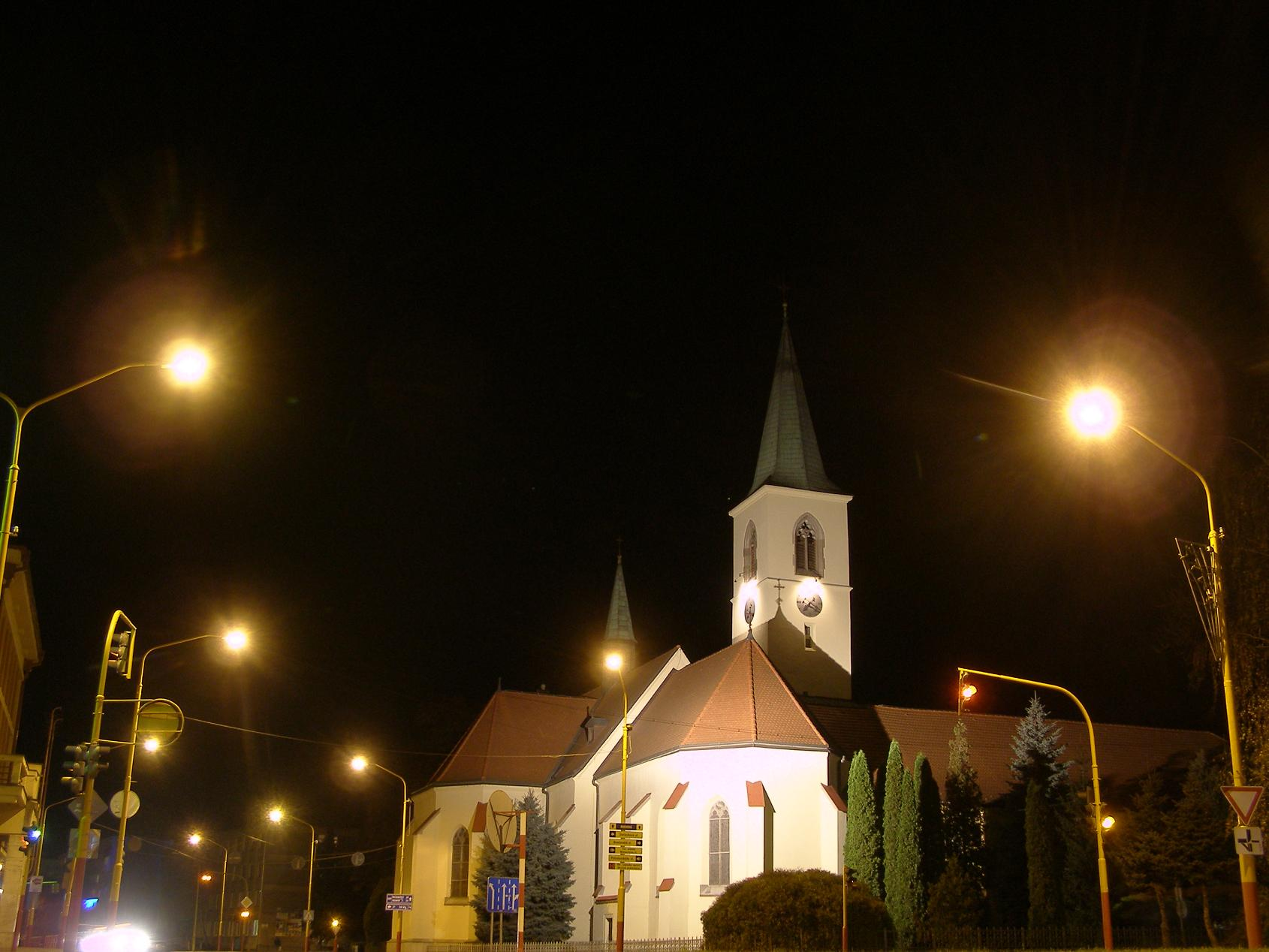 Gothic church in Humenne, Slovakia